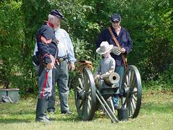 Civil War re-enactment at Pt. Mallard Park in Decatur, AL